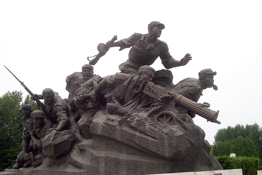 Victorious Fatherland Liberation War Museum, Pyongyang (조국해방전쟁승리기념탑 중 군상 1211고지 방위자들)